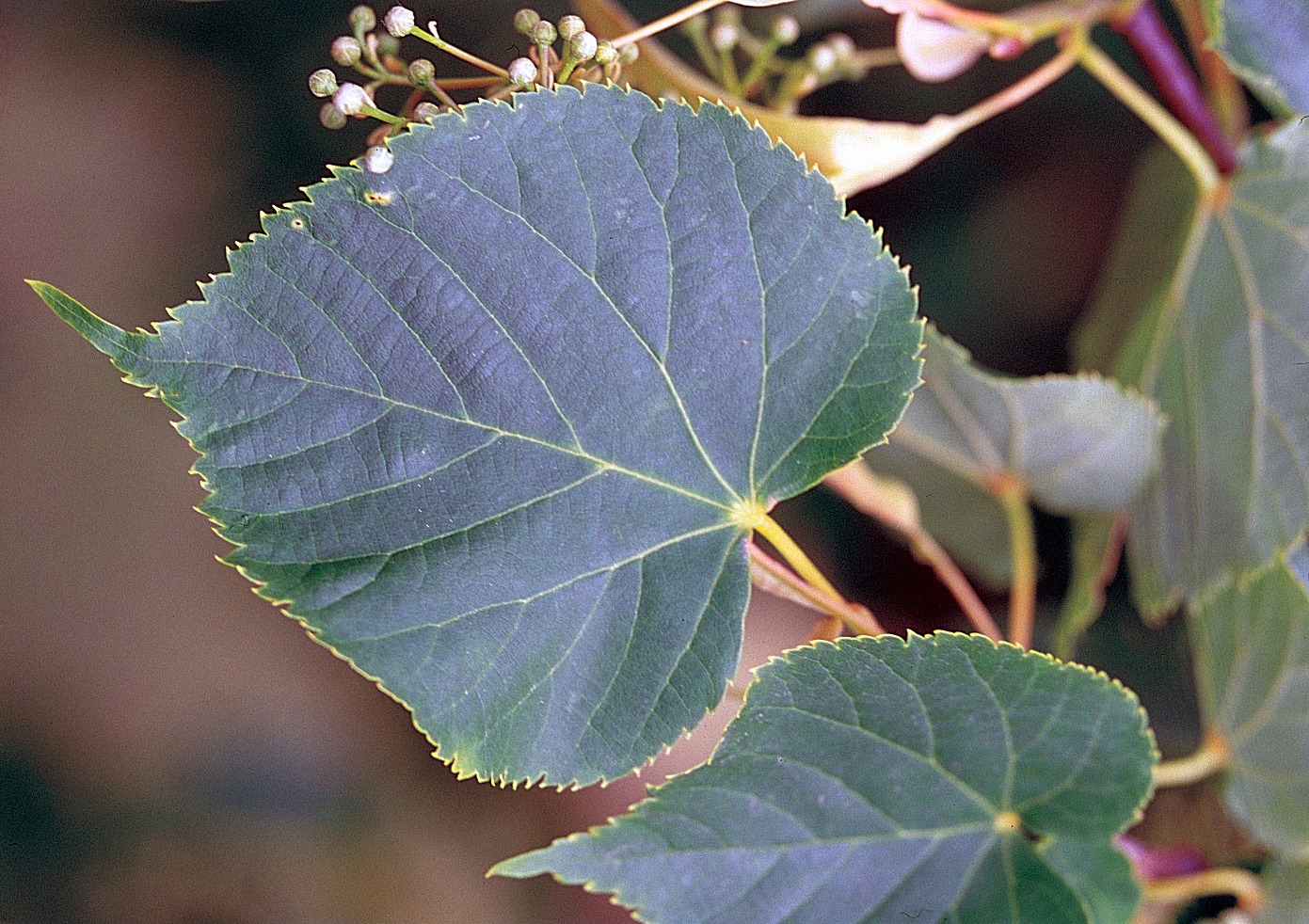 Leaf of Tilia americana L. - American basswood